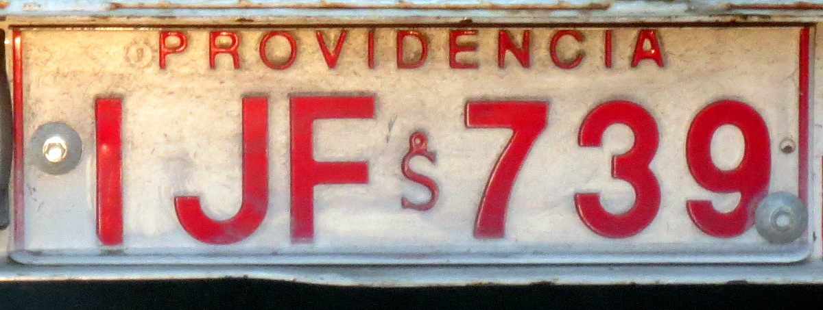 Chilean registration plate: trailer